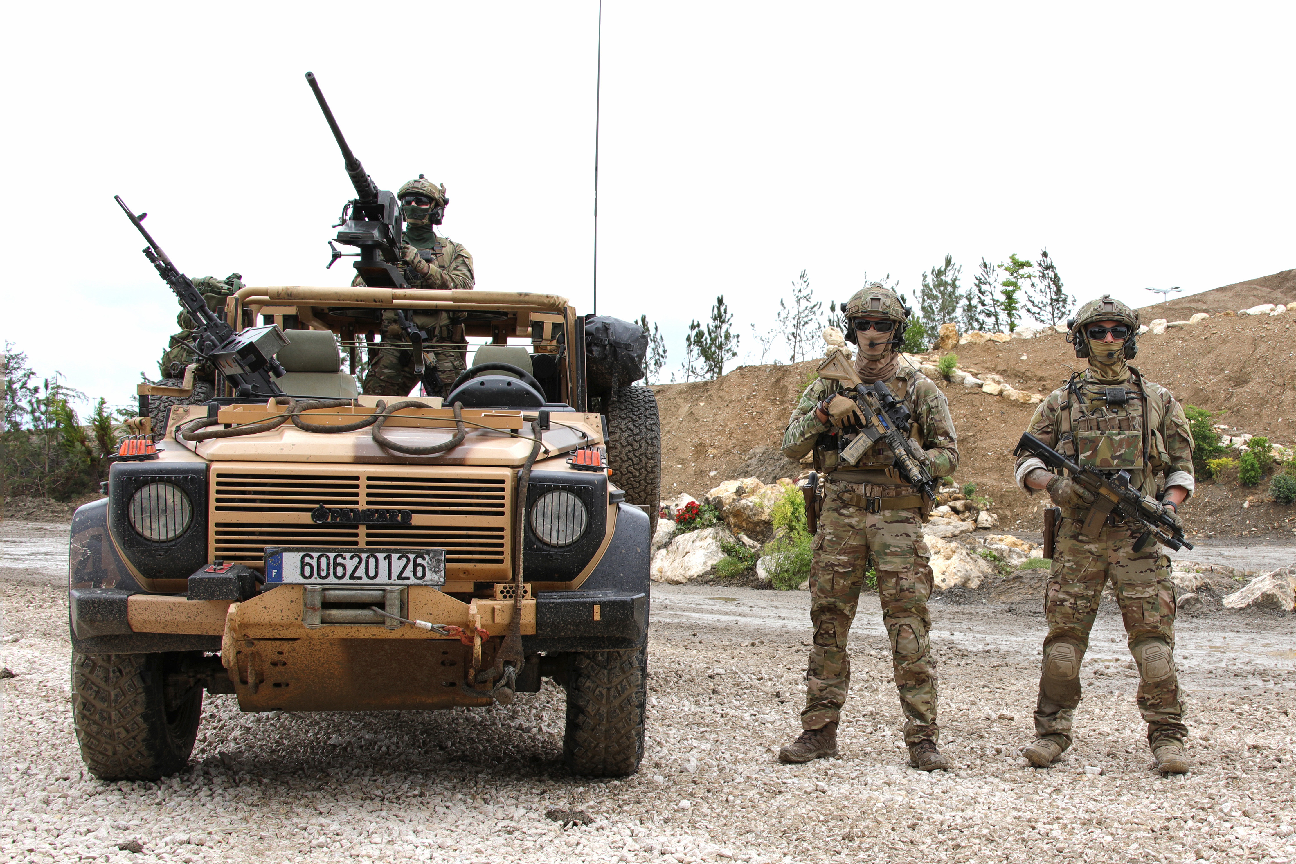 French army special forces team during a hostage rescue demo-4 June 2018